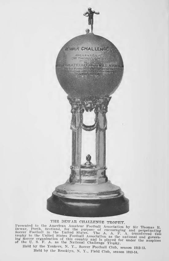 The National Challenge Cup trophy, donated by Thomas Dewar in 1912 for the promotion of association football in the US. The cup was awarded until 1979 when it was retired due to poor condition. It was brought back into use by the United States Adult Soccer Association in 1997, but then was moved to the National Soccer Hall of Fame in Oneonta, New York.